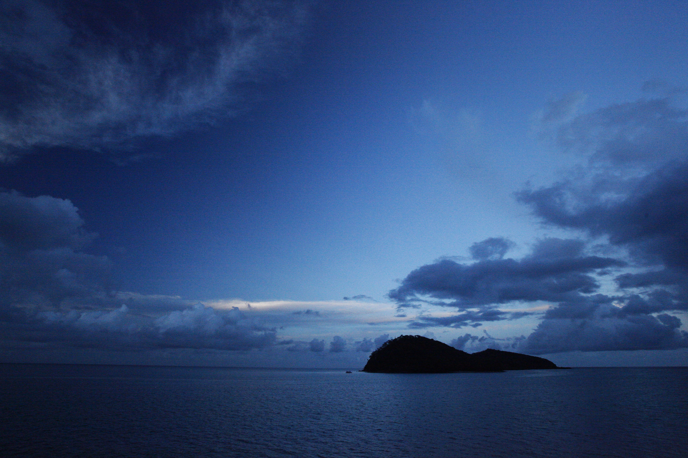 Evenings on the Coral Sea above the Great Barrier Reef were amazing ! NOTE: I saw pictures of the Great Barrier Reef area and thought to myself that the colors are skewed, they are way too blue. I took shots and to my surprise this is what I got - and with no filters added !